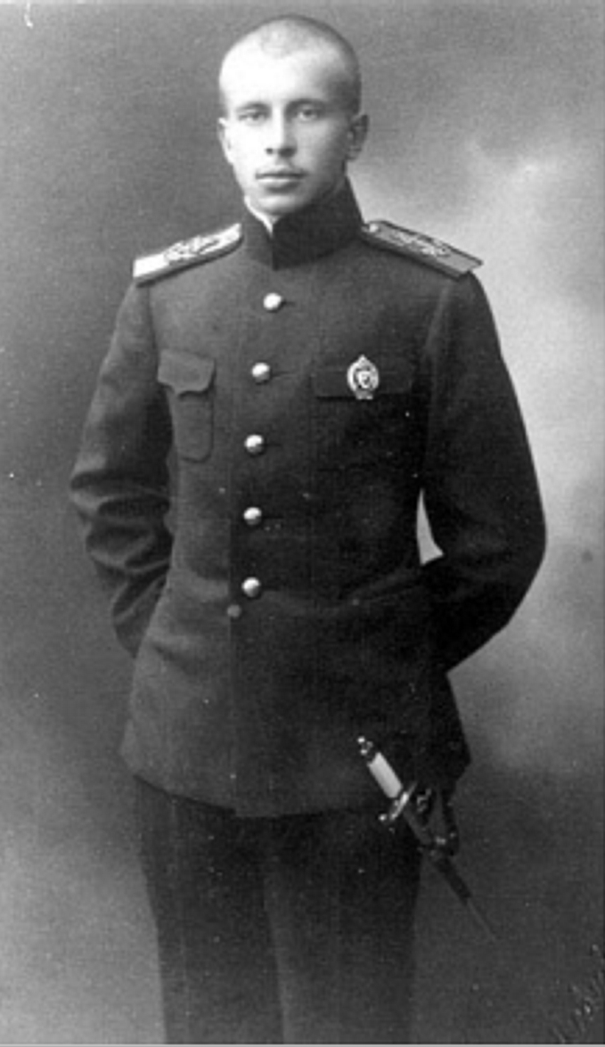 Guard marin Vladimir Kolchak in 1915.